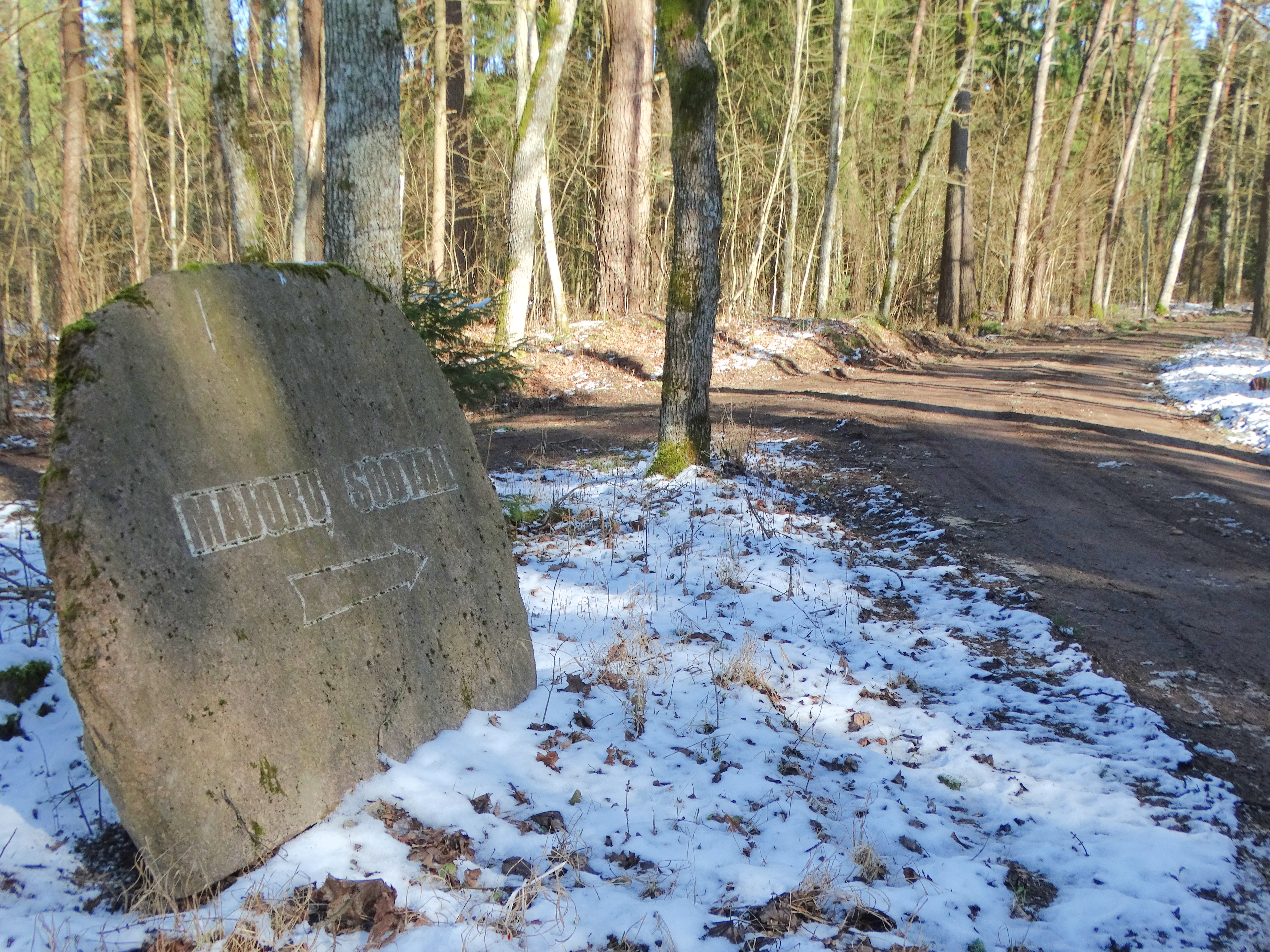 Šernai, stone to Majoras house, Klaipėda district, Lithuania